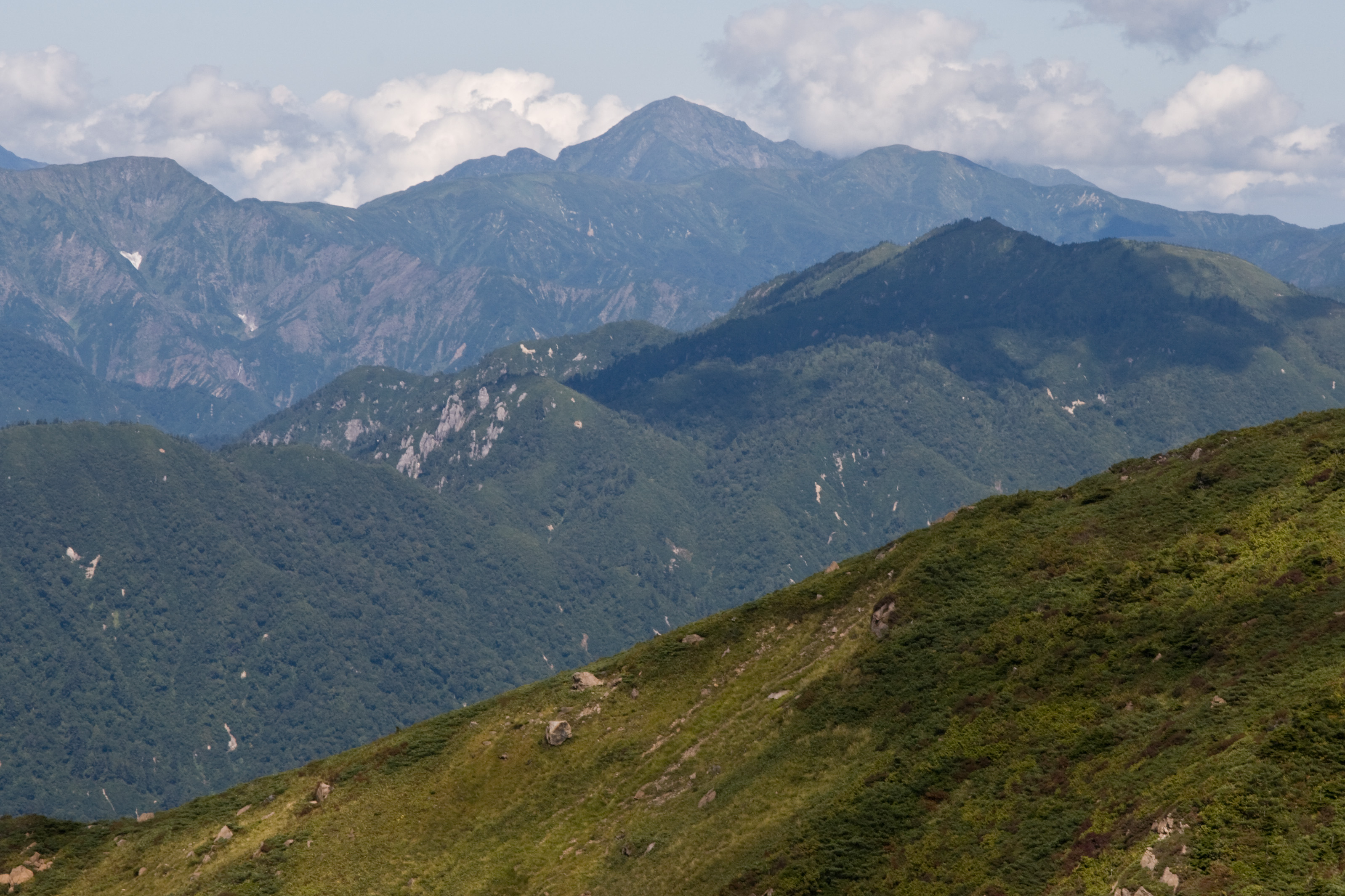 Mt.Nakanodake from Mt.Shibutsu, Honshu, Japan.